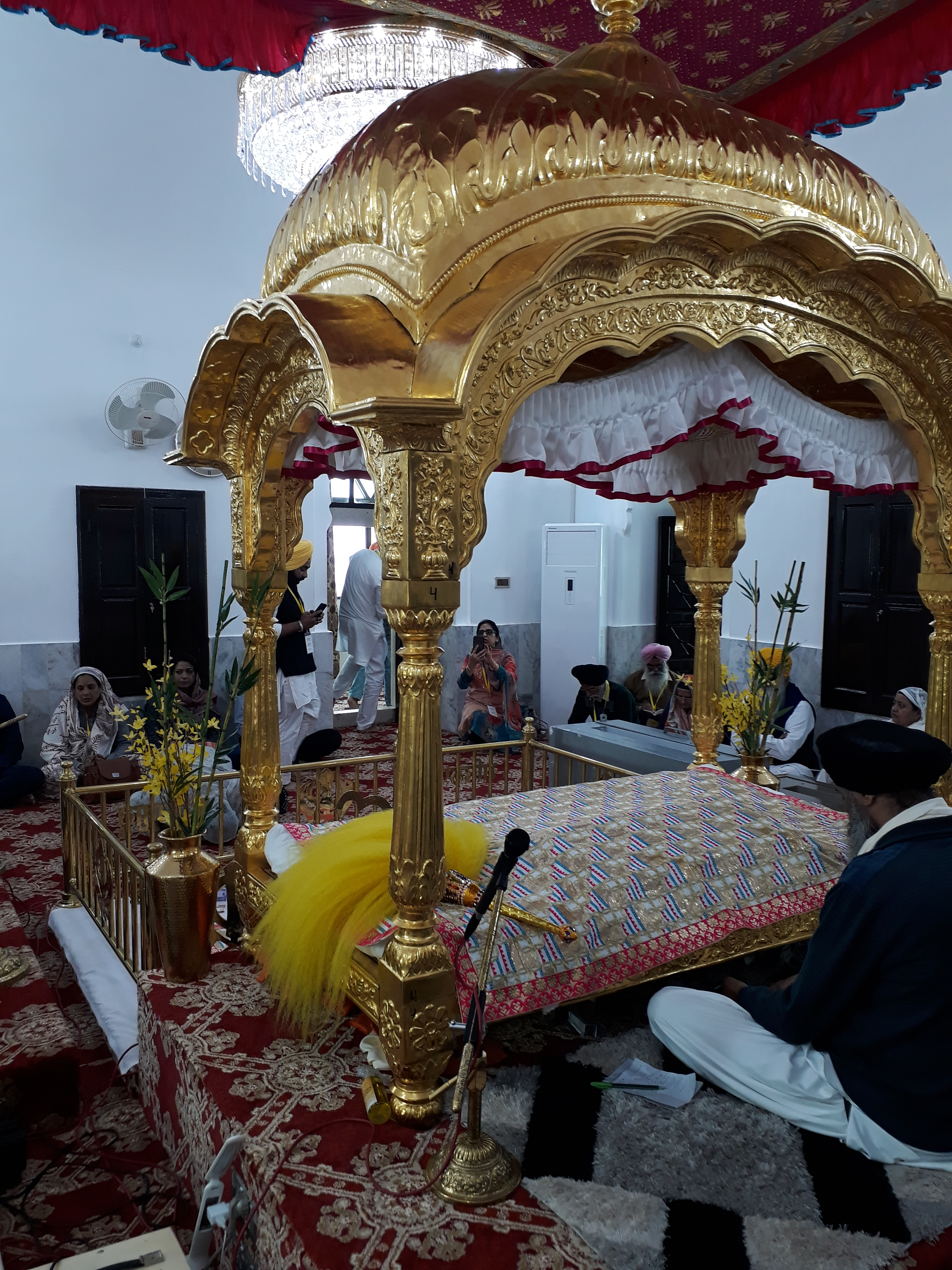 Picture is about Gurdwara Kartarpur Sahib